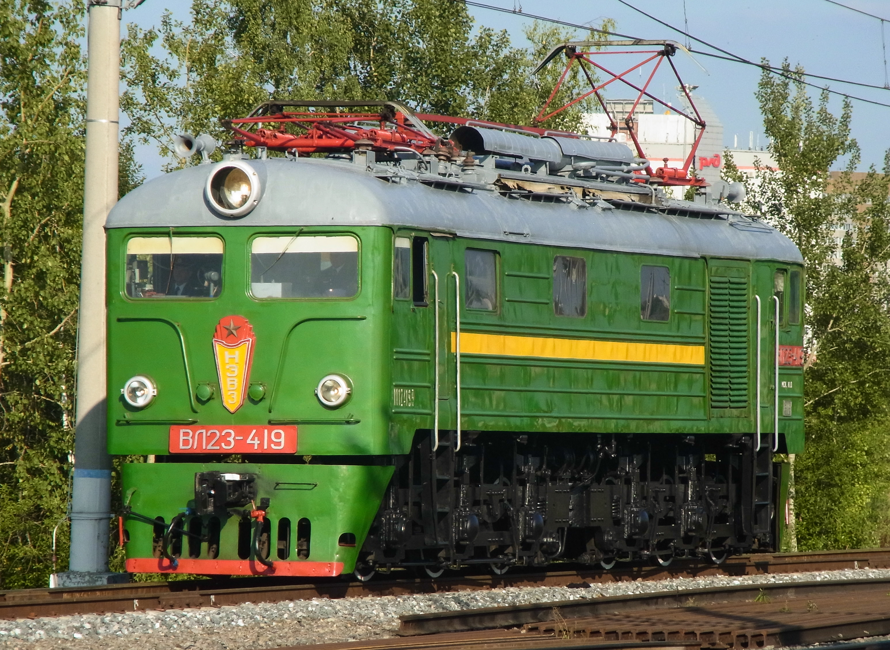 Electric locomotive VL23-419 at train parade during Expo 1520 railway exhibition in 2017 on railway test circuit in Shcherbinka, Moscow, Russia